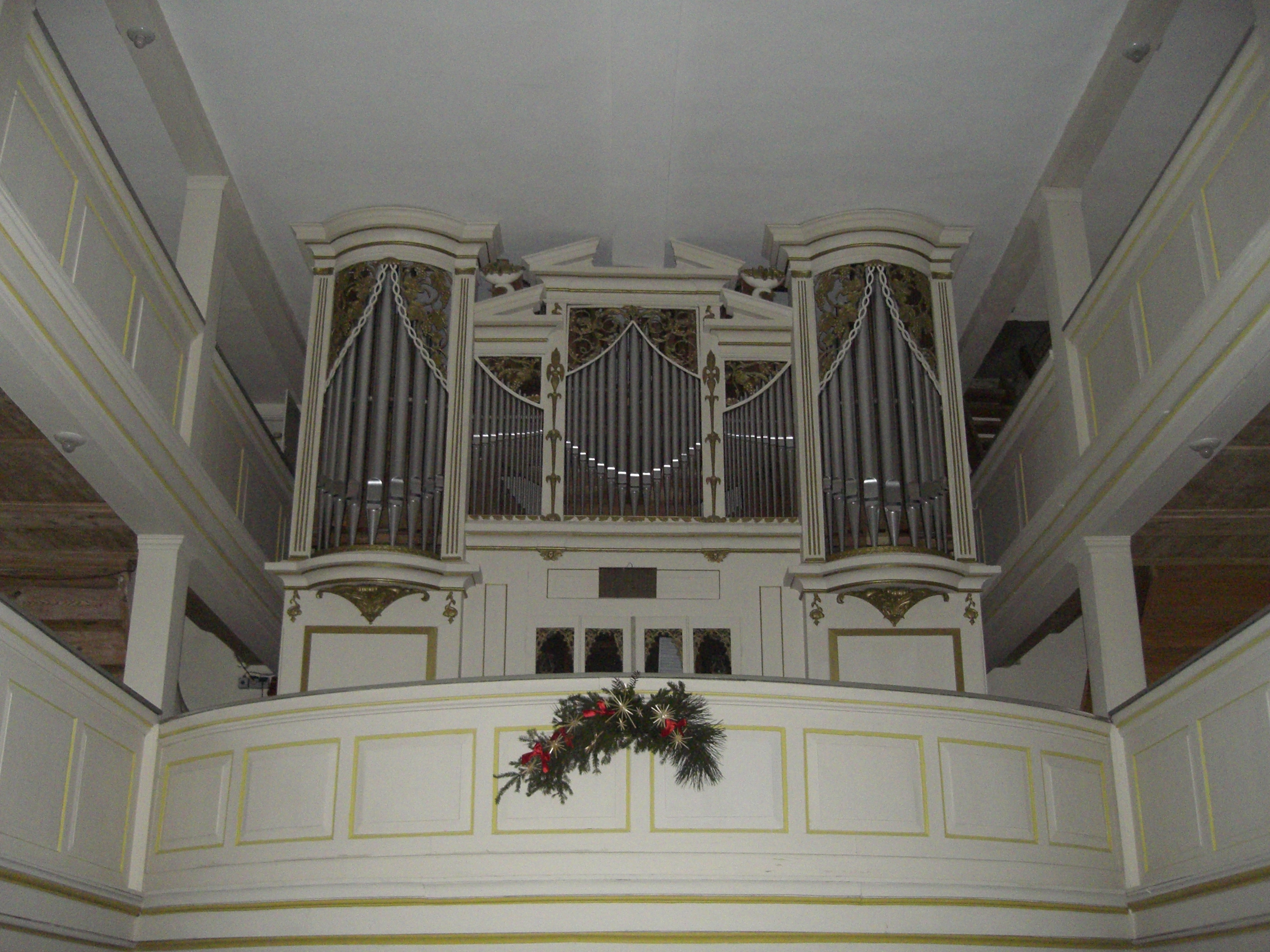 Organ of the church of the village of Hohendorf, Bürgel, Thuringia, Germany.